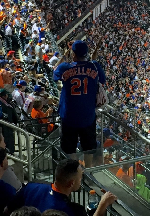 The New York Mets' Cowbell Man, appearing during the Subway Series on September 18, 2015.